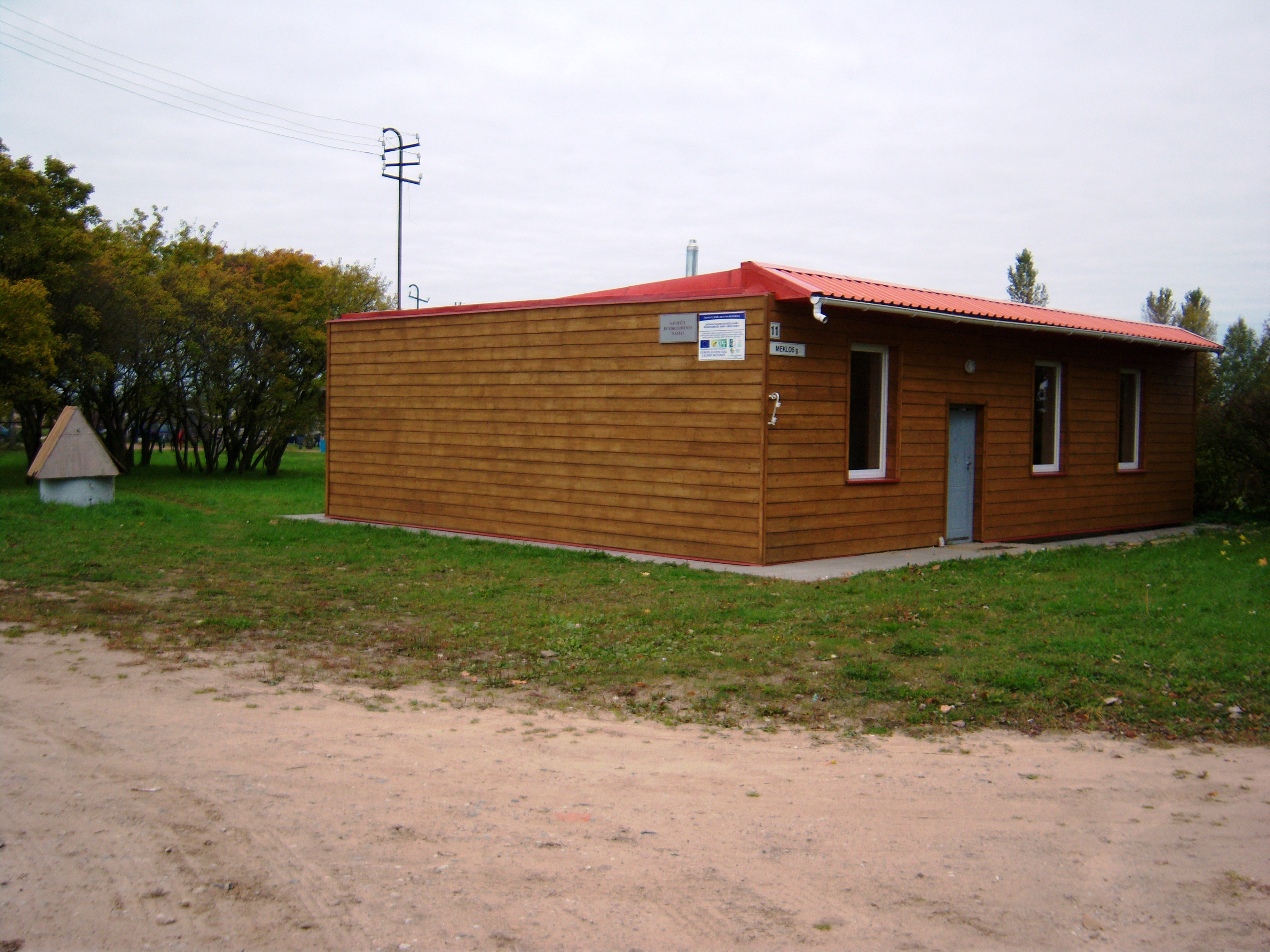 Community House in Saviečiai, Kėdainiai District, Lithuania